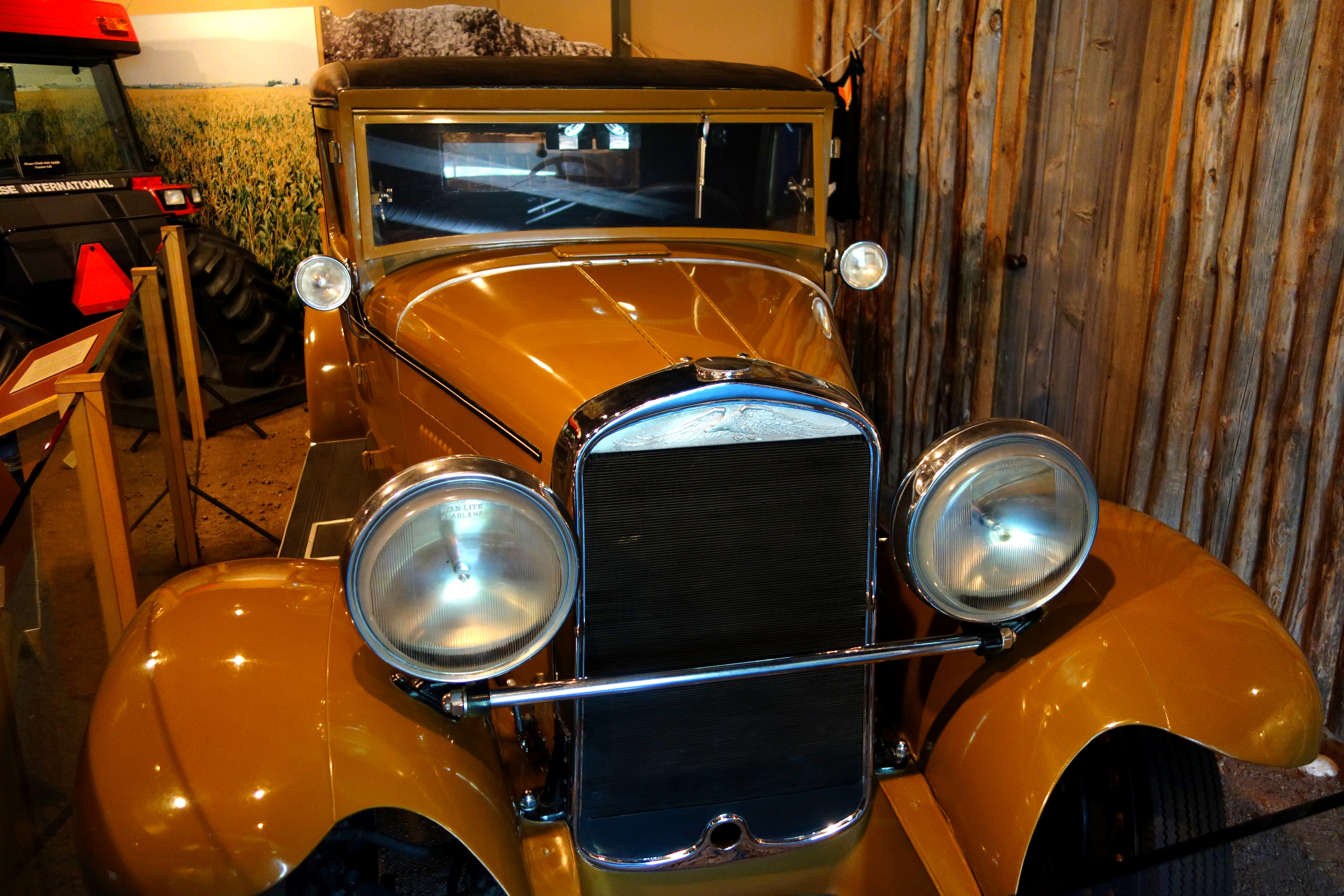 Exhibit in the Wisconsin Historical Museum, Madison, Wisconsin, USA. This item is old enough so that it is in the public domain.